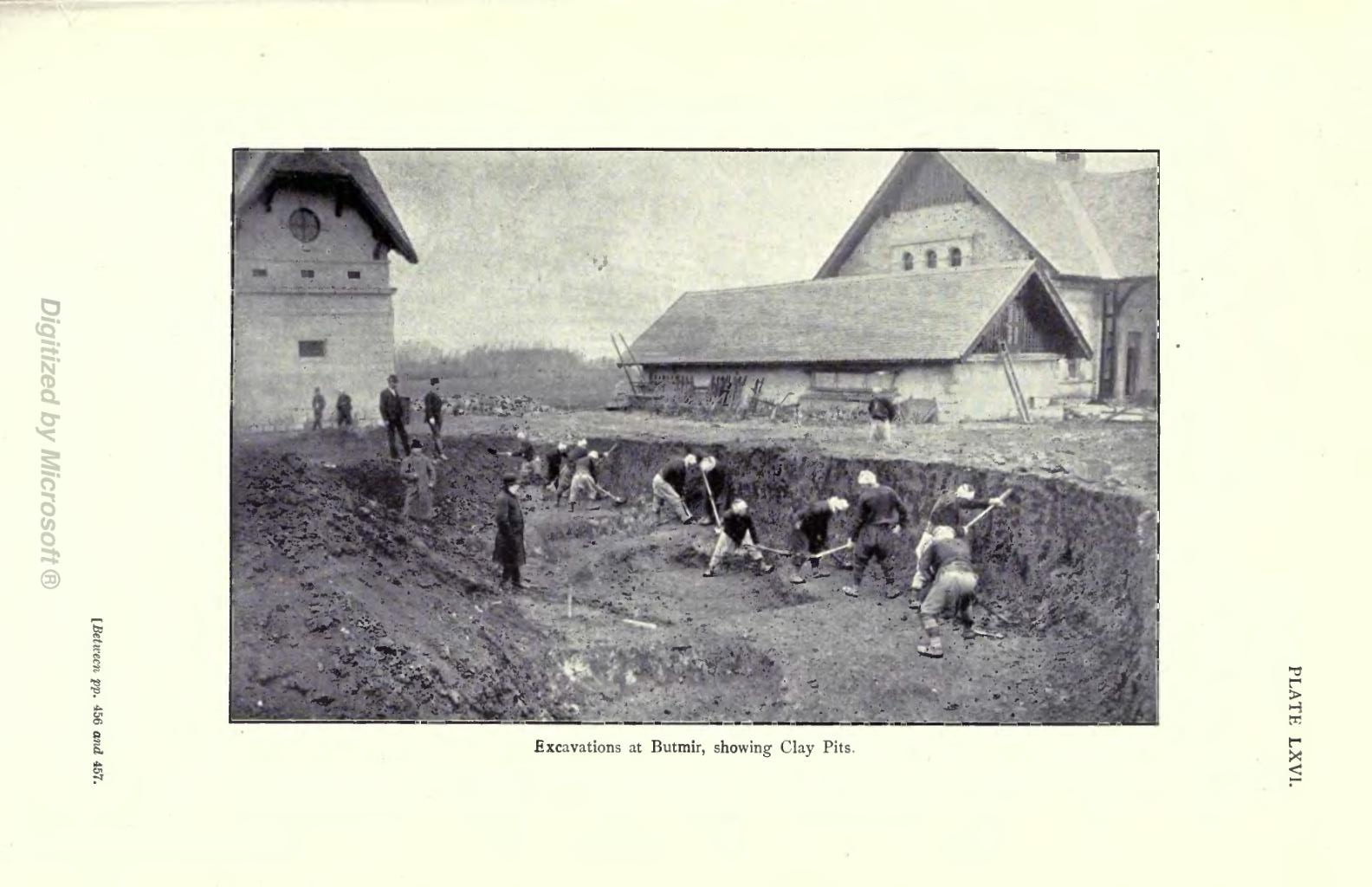 Excavations at Butir, showing Clay Pits. [Between pp. 456 and 457.